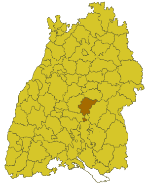 Map of Baden-Württemberg with the former county of Reutlingen before 1973